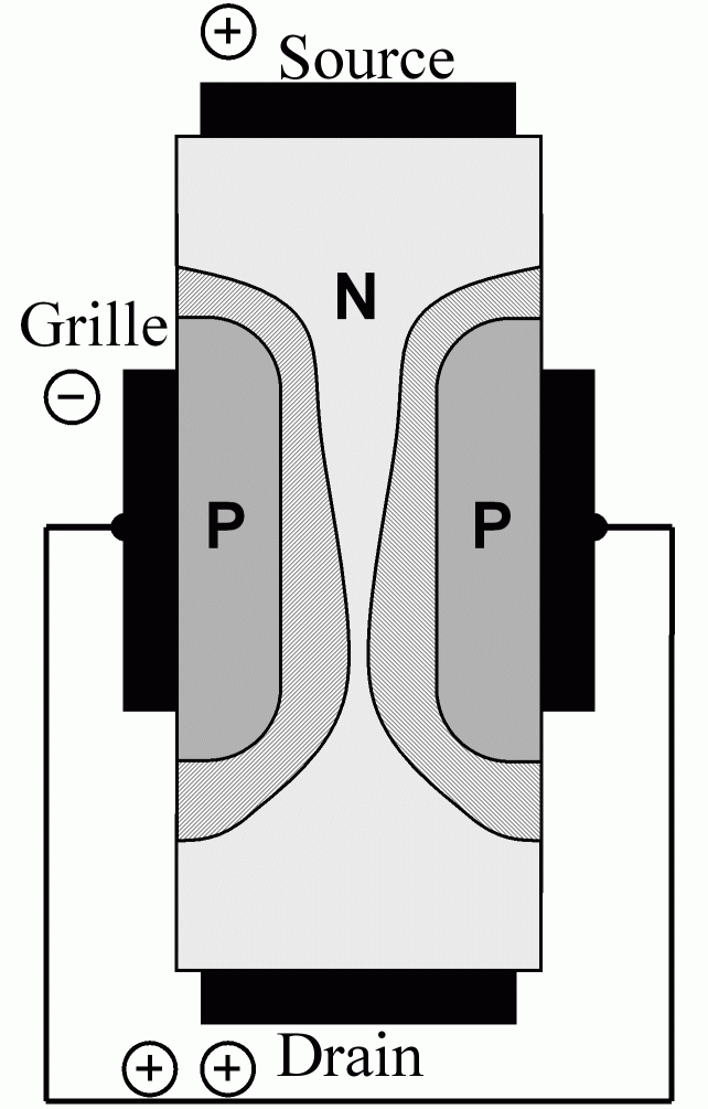 General diagram of a JFET